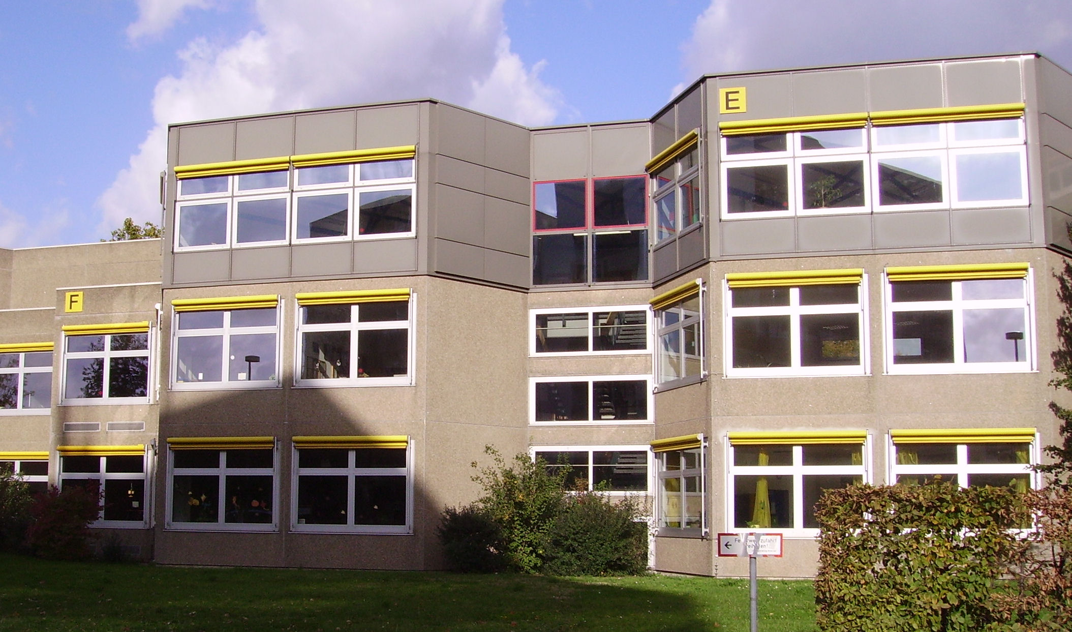 school in Mutterstadt, Germany